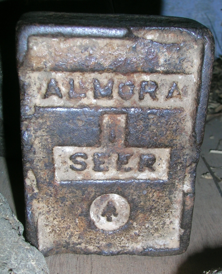 Almora 1 Seer, weight measure, India